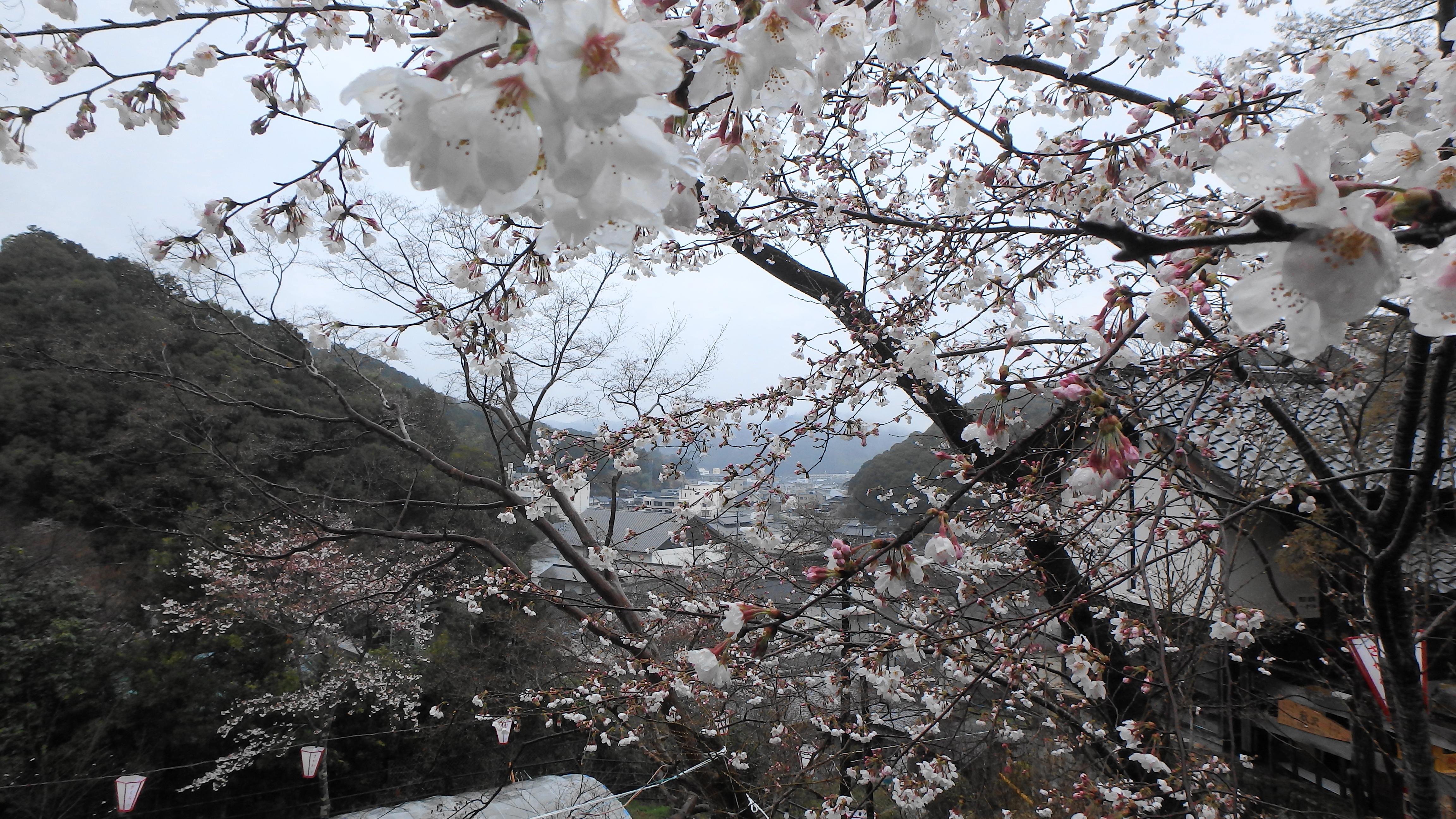 Makino Park(Japan's Top 100 famous place of cherry trees),Kochi prefecture,Japan